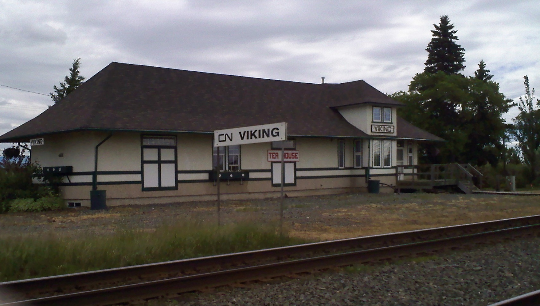 Rail side of the Viking railway station, now a Tea House, at 5001 51 Avenue, Viking, Alberta.